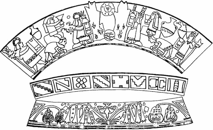 The upper scene shows the motif of the encounter between the Sapan Inca (on the left) and the Hatun Qolla (seated on the right). The Colla characters wear the same headdress illustrated by Guaman Poma to describe the people of the Altiplano, the Collasuyo. In Gisbert 1980, sheet 28.